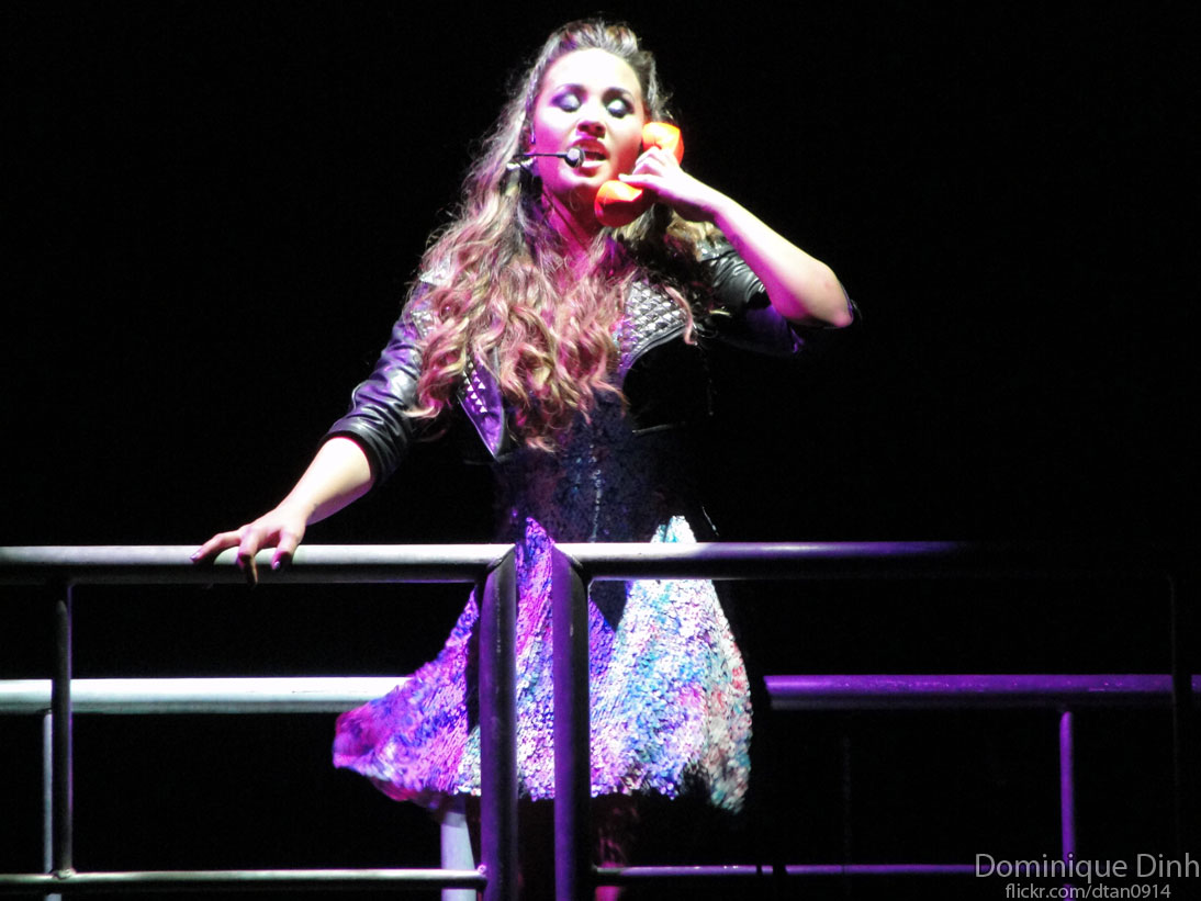 Demi Lovato performing "You're My Only Shorty" at Club Nokia in Los Angeles.